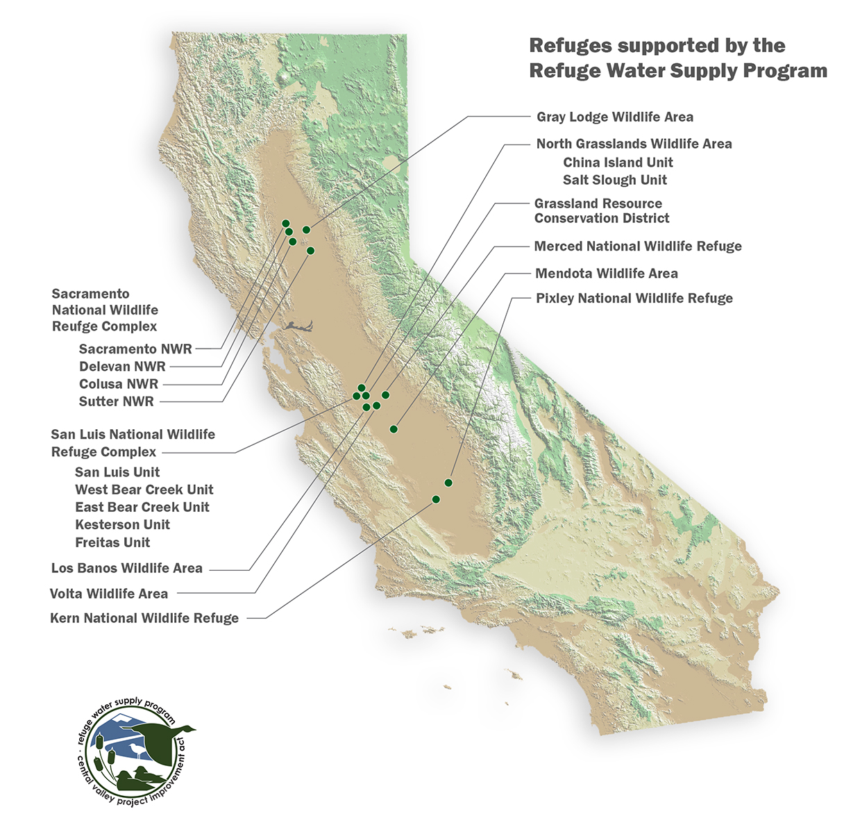 Map of RWSP Refuge Locations